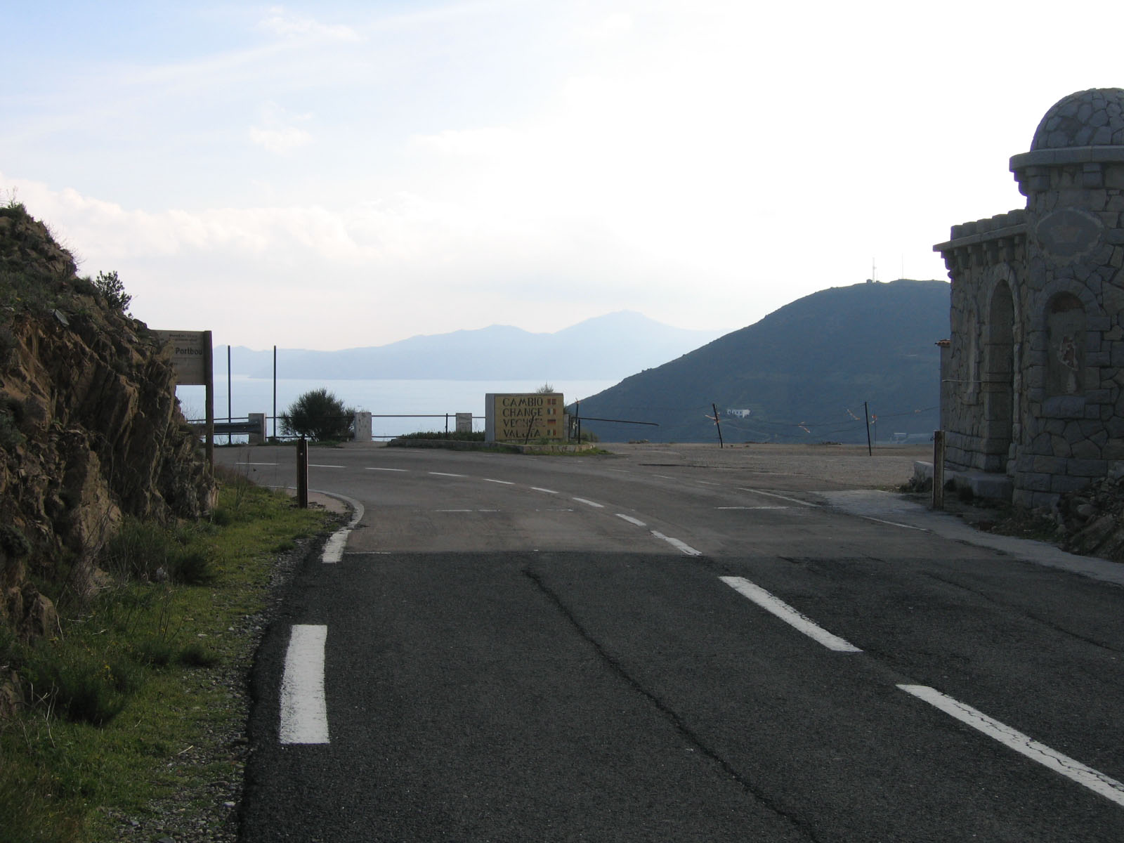 The French-Spanish border at Balistres Pass